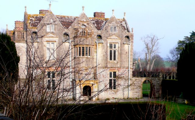 Thomas Hardy Locations Far from the Madding Crowd Waterston Manor is the Wetherbury Farm of this great novel of Hardy's. Bathsheba Everdene the novel's heroine inherited this property from her uncle and became a wealthy lady farmer. Gabriel Oak, a shepherd whose life she had previously saved but whose offer of marriage she had previously spurned arrived here and saved her stock of hay from a fire. Bathsheba hired Gabriel as her farm manager or Bailiff. A rich but elderly bachelor farmer Boldwood courts her but she just toys with him. Gabriel rebukes her and is sacked by her. All her sheep fall sick and Gabriel is the only one who can save them. She begs him to return and their friendship is restored. Bathseba is then seduced By dashing Sergeant Troy a wastrel gambler who is actually in love with a poor girl Fanny Robin. Troy marries Bathsheba but after she finds out about Fanny when Fanny dies in childbirth in the workhouse Troy disappears at sea and is presumed dead. Boldwood tries to marry Bathsheba again but Troy turns up to claim his place and at a party at Boldwood's house , Boldwood shoots Troy dead. Bathseba then marries Gabriel and he becomes master of this great house.